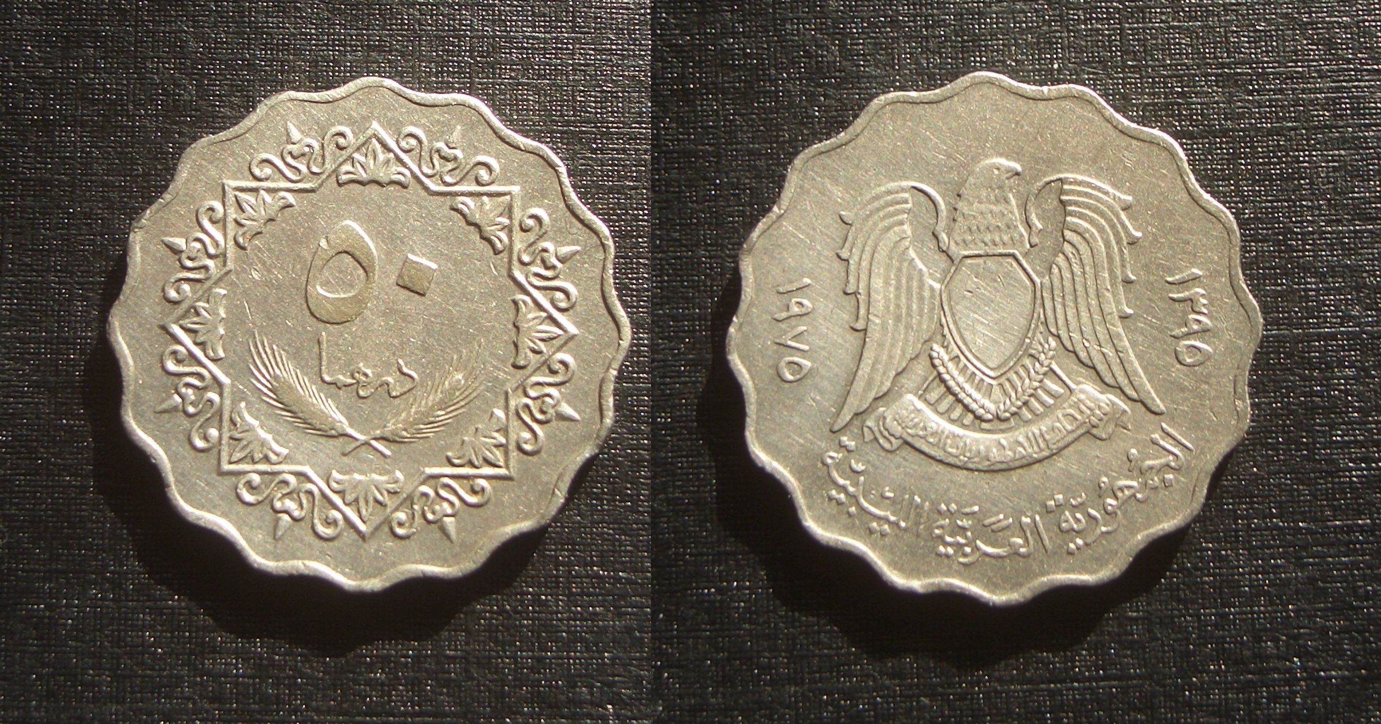 Libyan Arab Republic, 50-dirhem coin from 1975 (1000 dirhem = 1 Libyan dinar)